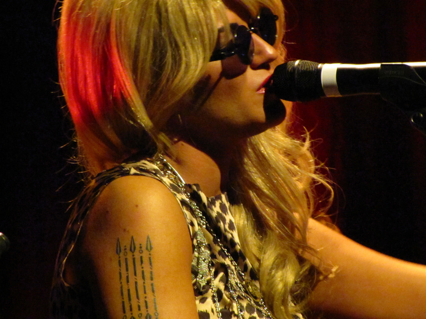 Melody Gardot live at the Admiralspalast in Berlin September 2010